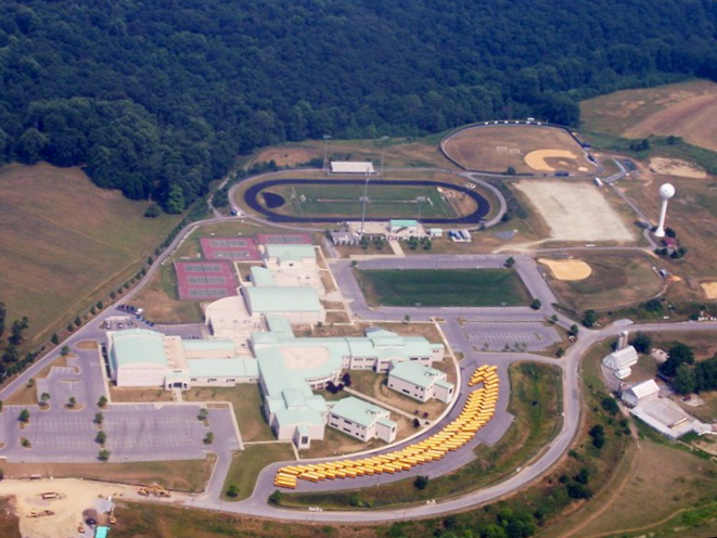 Top view of school.